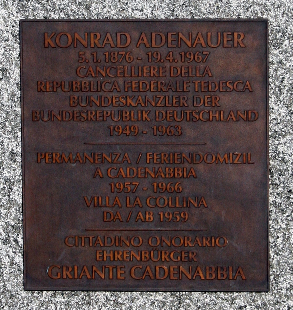 Italy, Cadenabbia on Lake Como; Inscription of the monument to german cancellor Konrad Adenauer, who spent 1957-1966 regular holiday.